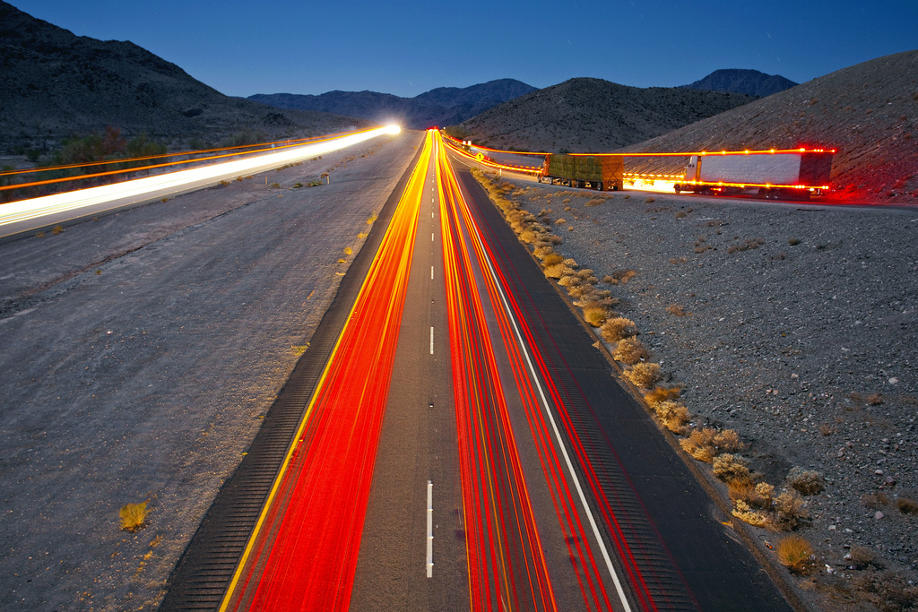 Interstate 15 in California, as seen from the Zzyzx Road overpass at dusk